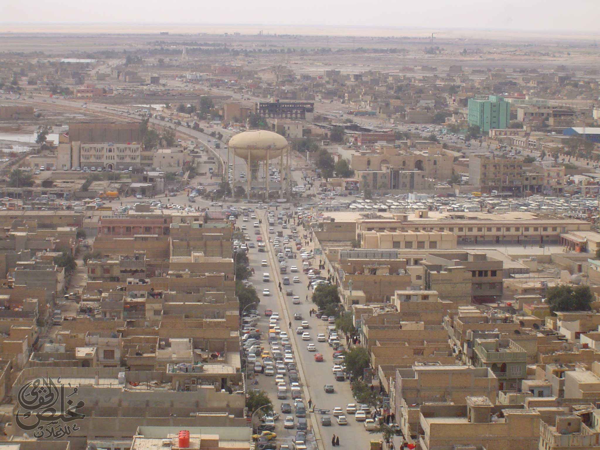 Samawa overview looking towards the salt sea